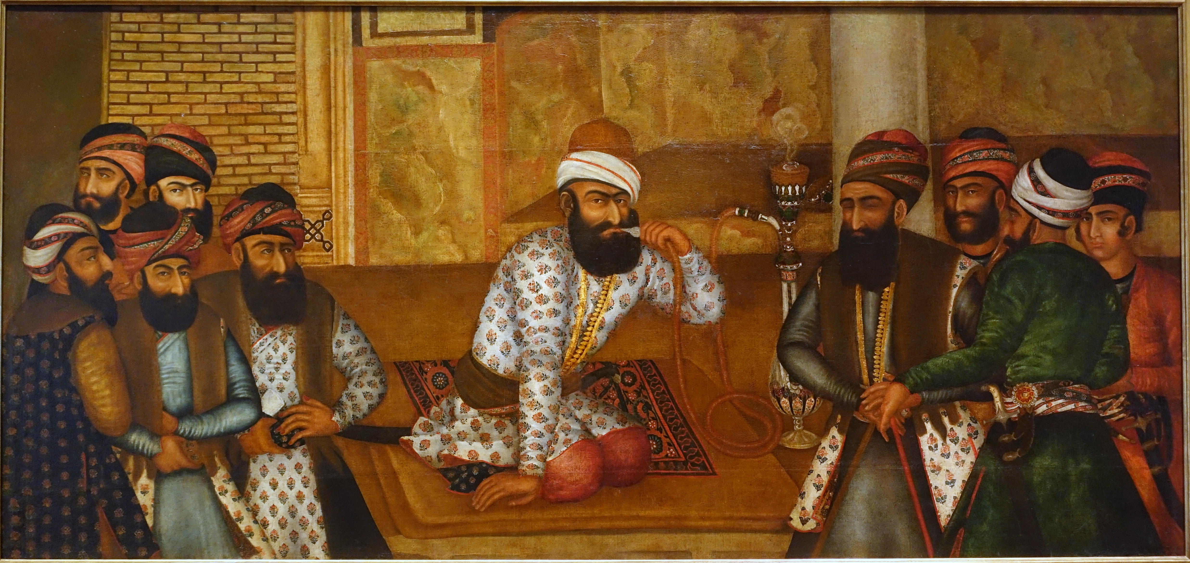 Exhibit in the Aga Khan Museum - Toronto, Canada. This work is old enough so that it is in the public domain.